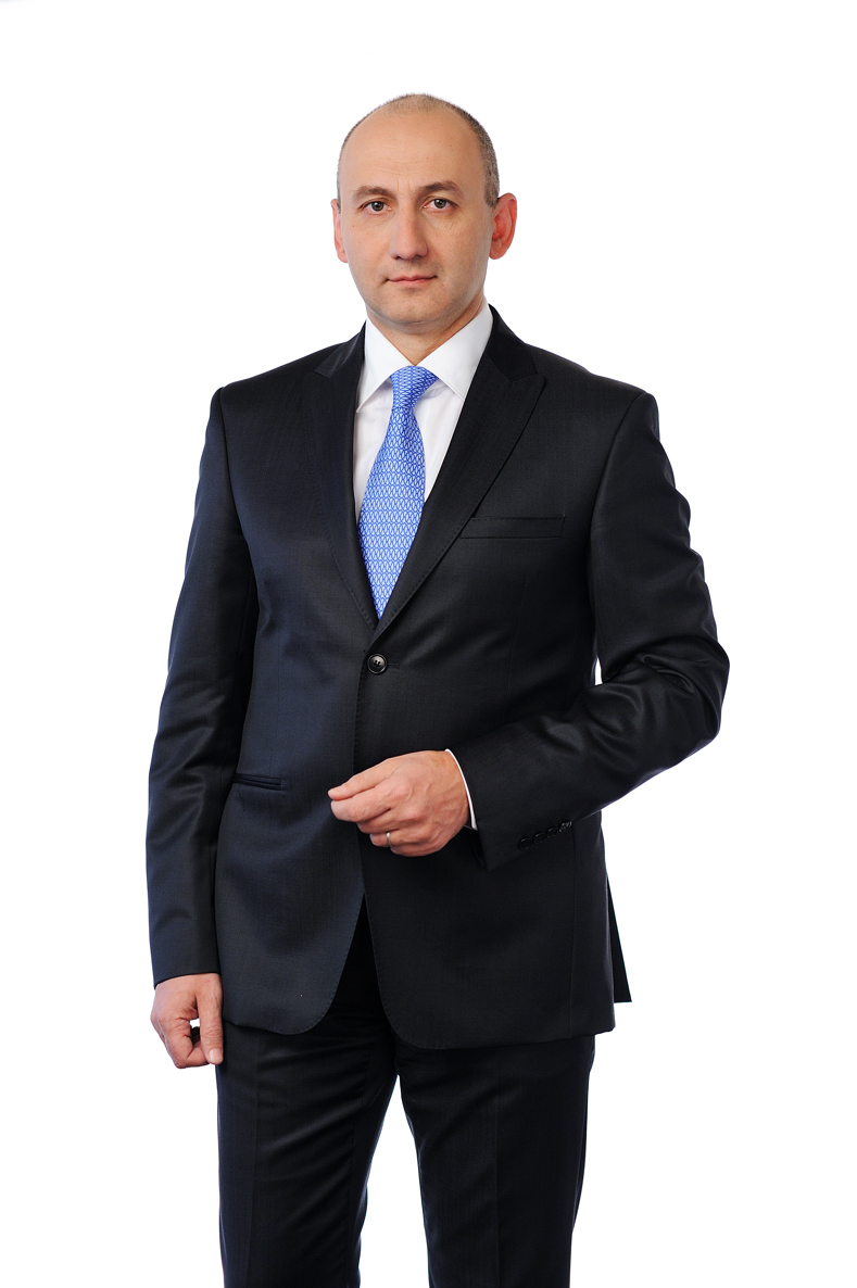 Momchil Andreev - Chairman of the Management Board and Executive General Manager of Raiffeisenbank Bulgaria